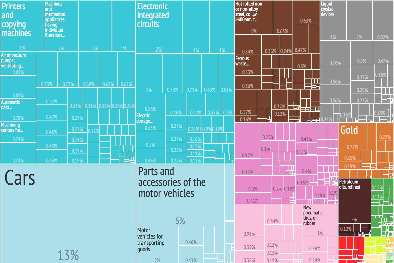 2012 Japan Products Export Treemap